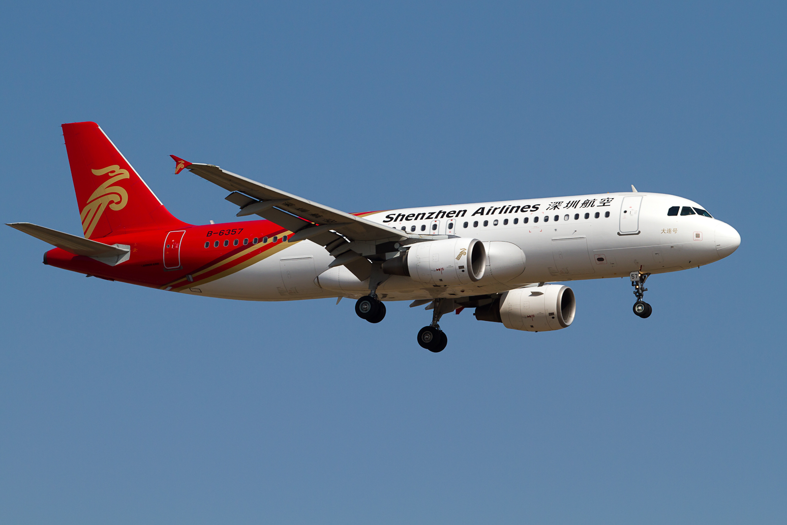 Aircraft: Airbus A320-214 B-6357(cn: 3440) Airline: Shenzhen Airlines - CSZ Headquarters: Bao'an, Shenzhen, Guangdong, China 27/02/2011 Tokyo-Narita Airport(NRT/RJAA), Japan